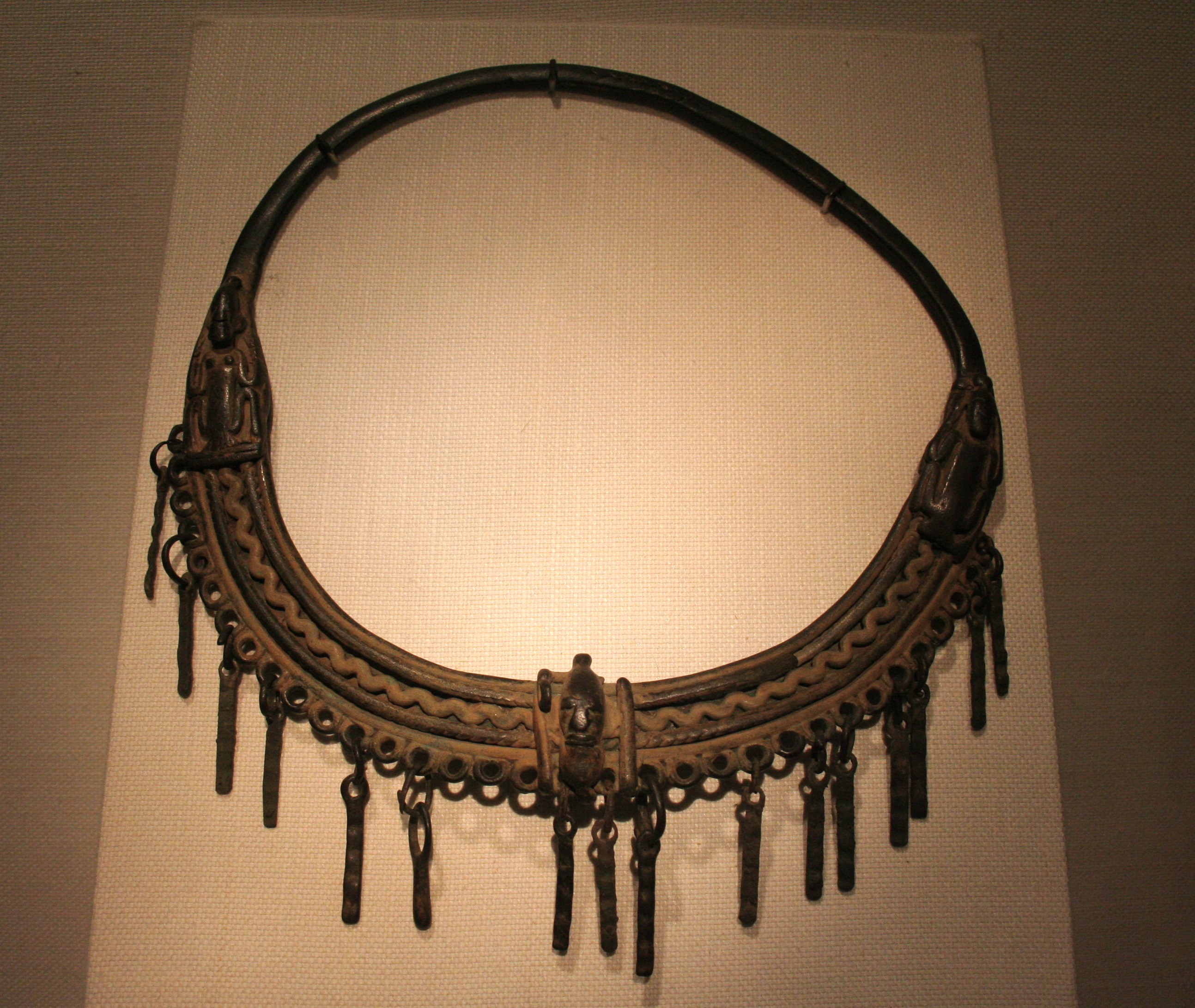 Dogon. Necklace, 18th century. Copper alloy, 9 x 9 x 1 in. (22.9 x 22.9 x 2.5 cm) Diameter: 9in. (22.9cm). Brooklyn Museum, Gift of Mrs. Jacob M. Kaplan, 74.67.